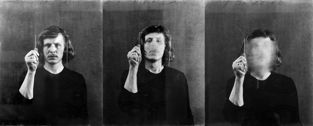 Wincenty Dunikowski-Duniko, Oddech Duniko/ Duniko's Breath, 1976